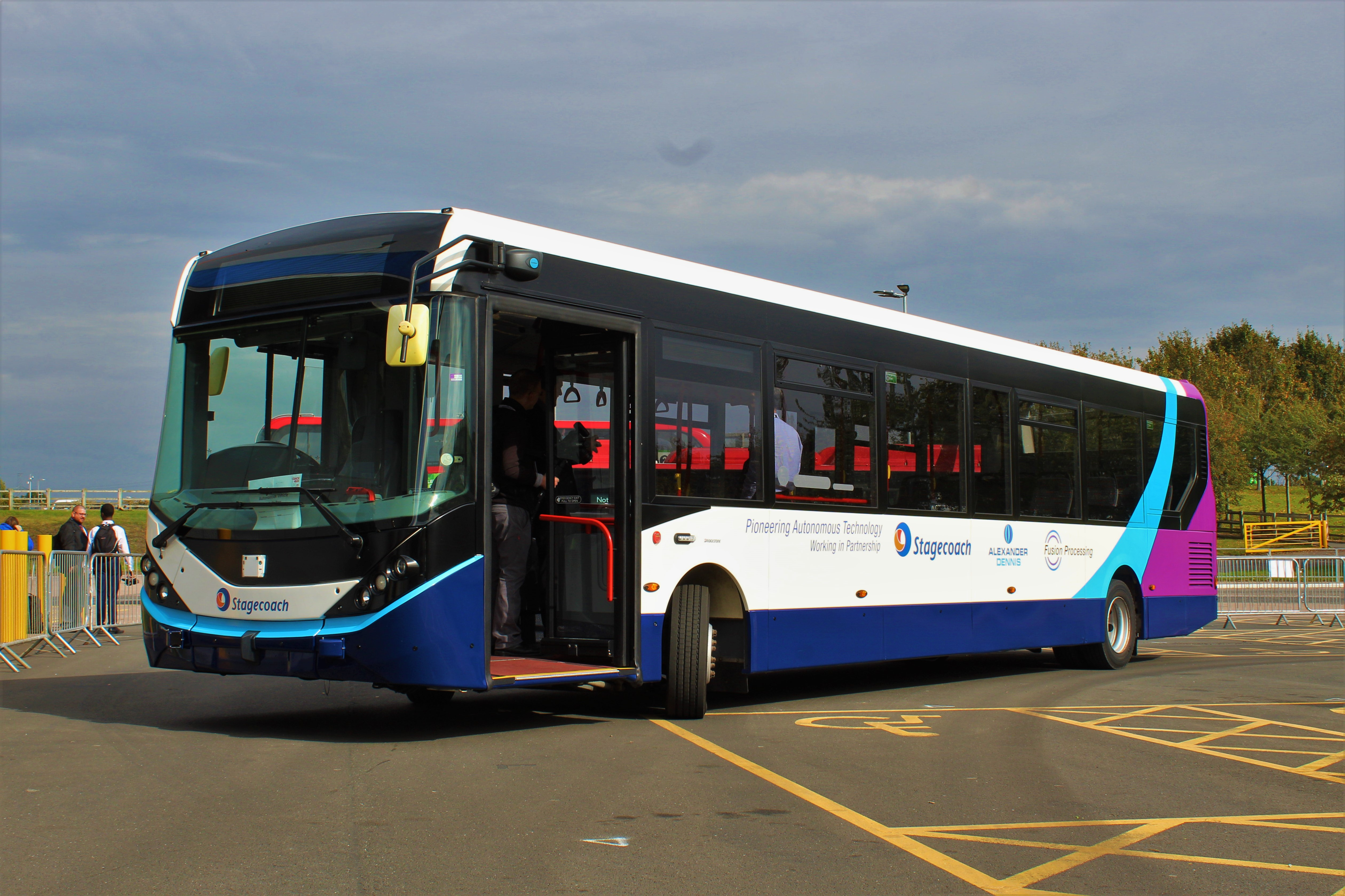 This Alexander Dennis Enviro200 MMC bus is fitted with autonomous technology from Fusion Processing which means that it is able to operate in driverless mode within Stagecoach Manchester's Sharston depot on a trial basis starting in mid-2019. Here the vehicle is seen on display at the 2019 UK Bus & Coach Live show at the National Exhibition Centre in Birmingham. Starting in or before 2021, a passenger-carrying driverless bus trial will be operated by Stagecoach across the Forth Road Bridge in Scotland using identical vehicles.